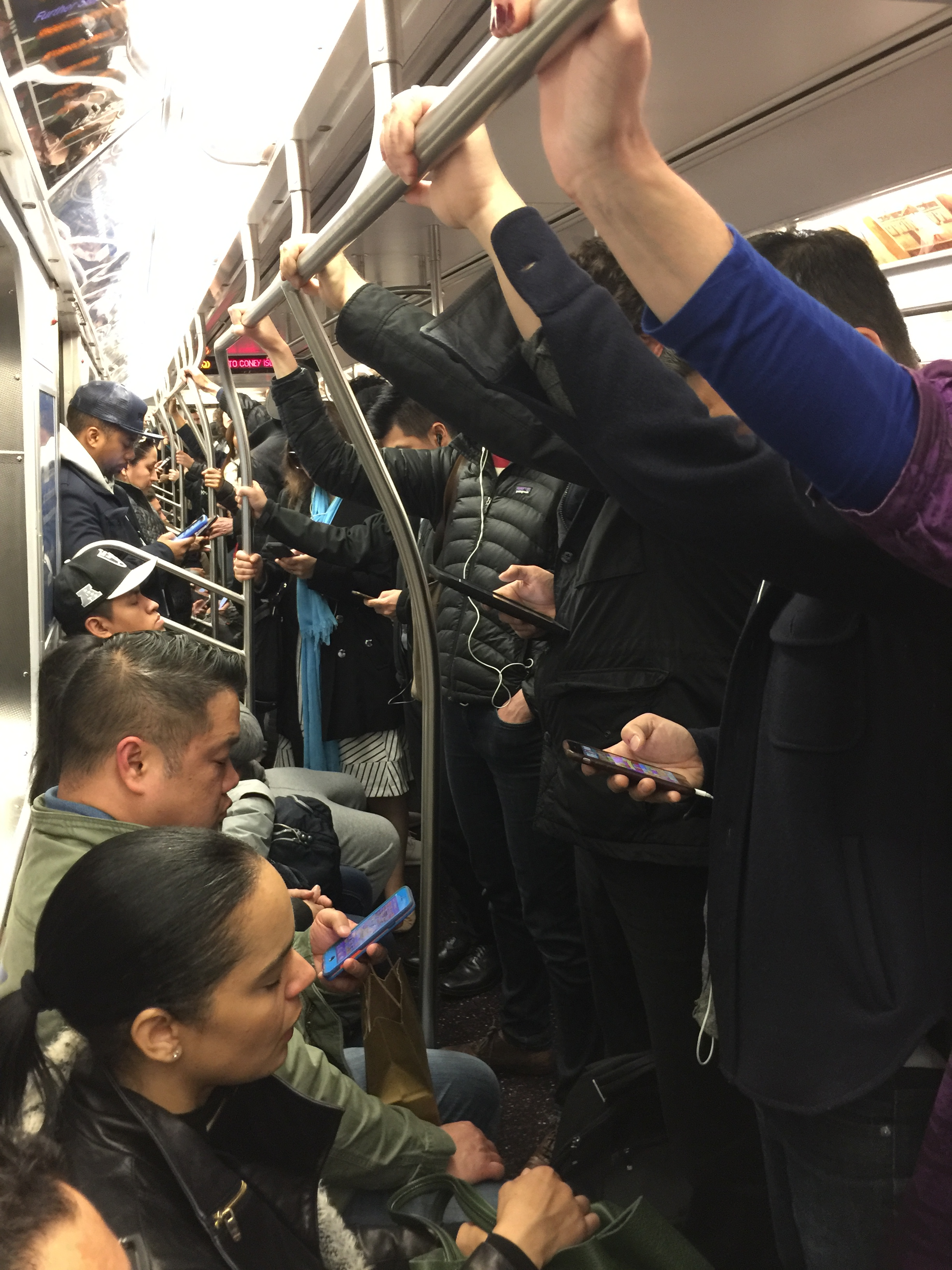 A rush-hour, Brooklyn bound Q express train operating on the BMT Broadway Line.